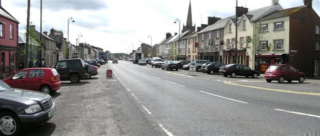 Aughnacloy, County Tyrone. It has a very wide street for an Ulster town - Cookstown is another town with a wide street. Acheson Moore was said to have laid out the town much as it is today. Although he was a landlord he was also a secret Jacobite and designed some of his fields and hedges to the west of the town in the shape of a huge thistle. This was not discovered until the advent of aerial photography.......The circular part of the thistle was always referred to locally as the Racecourse as that is what it was shaped like